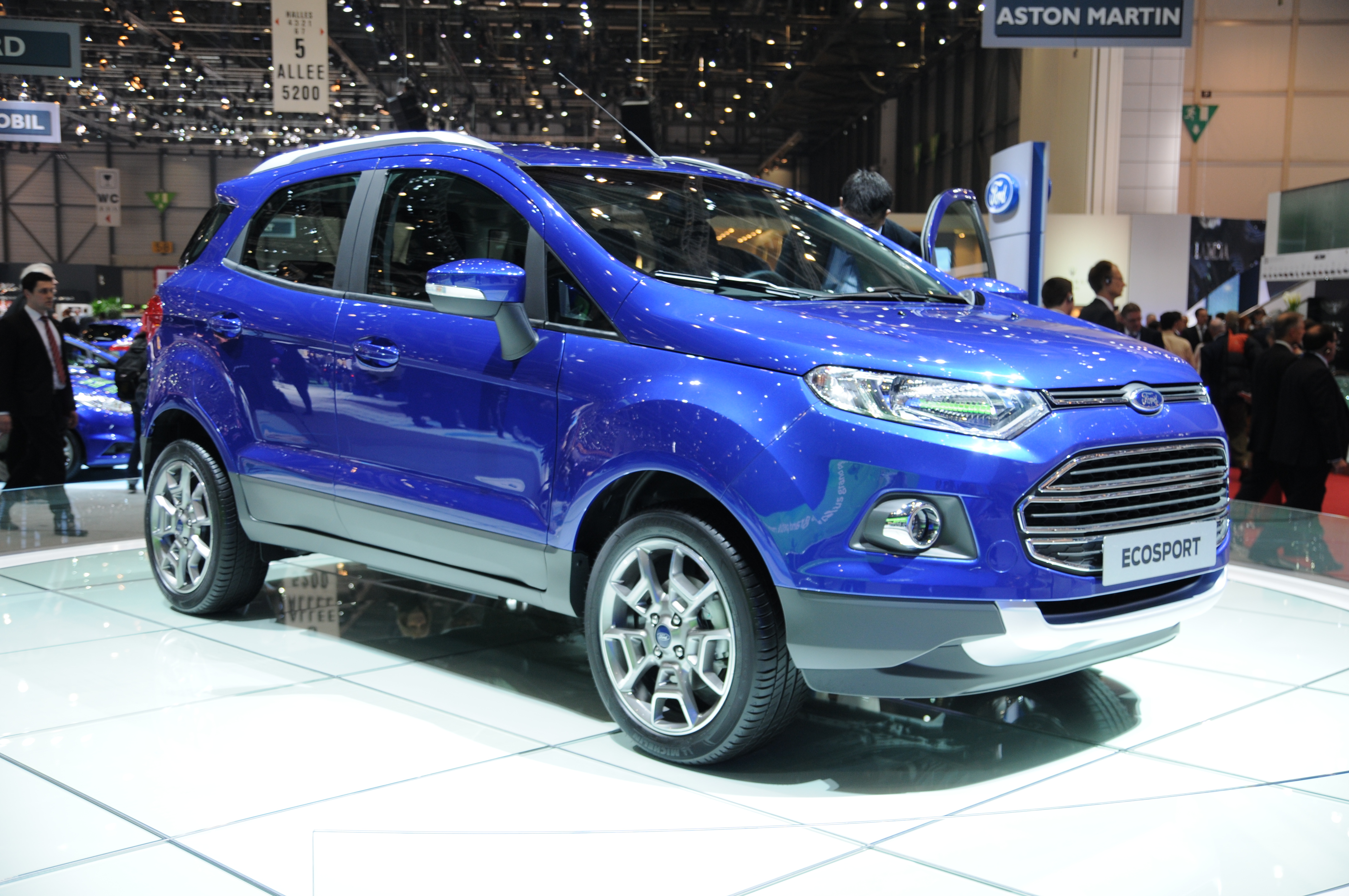 Geneva Motor Show 2013 (photos taken on the first press day)